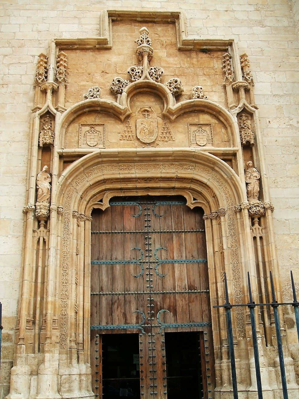 Portada gótico-isabelina de la Catedral de Alcalá de Henares (Comunidad de Madrid, España).